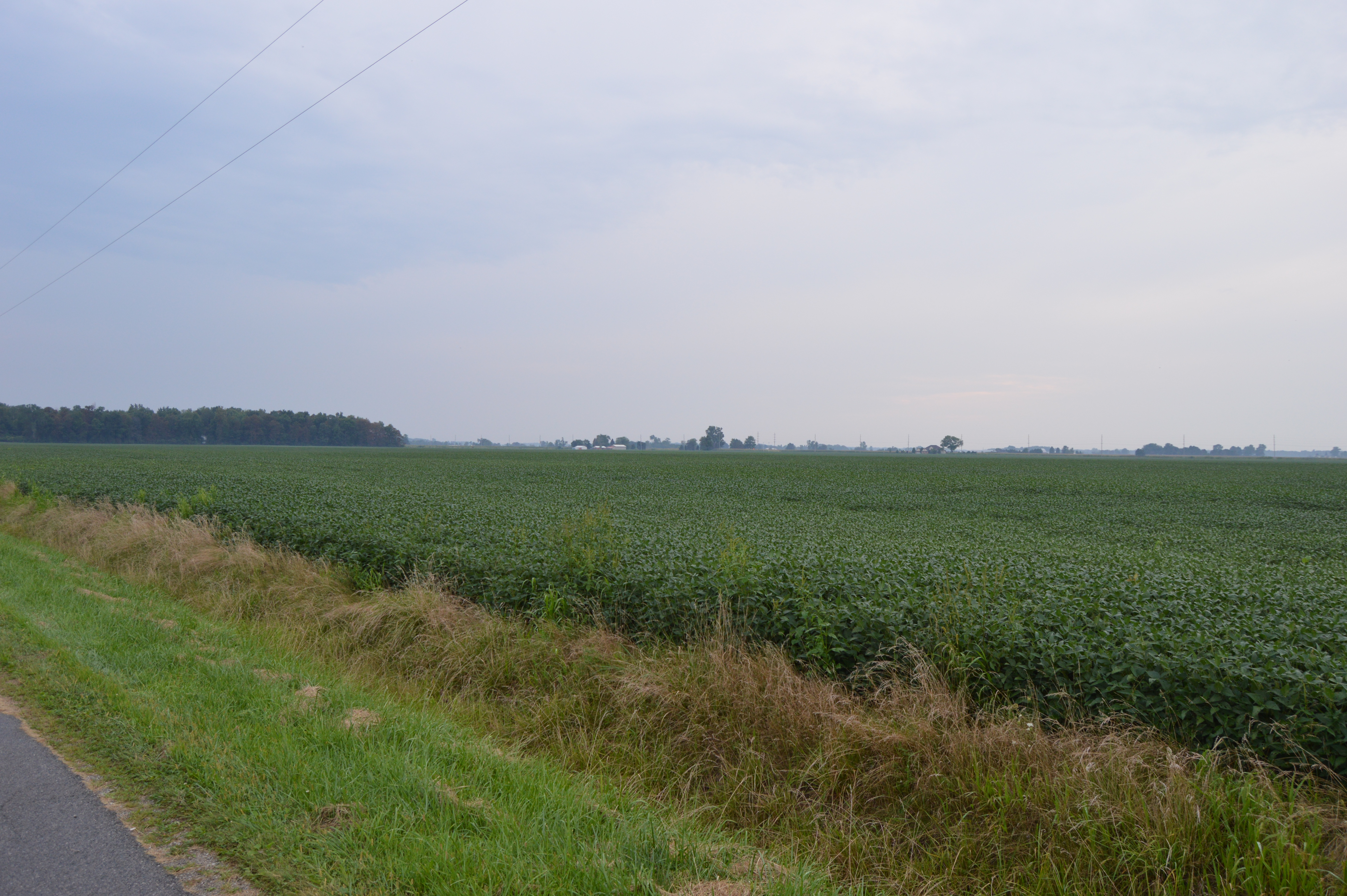 Looking southwest from the junction of Long-Judson and Van Tassel Roads southeast of Grand Rapids in Washington Township, Wood County, Ohio, United States.